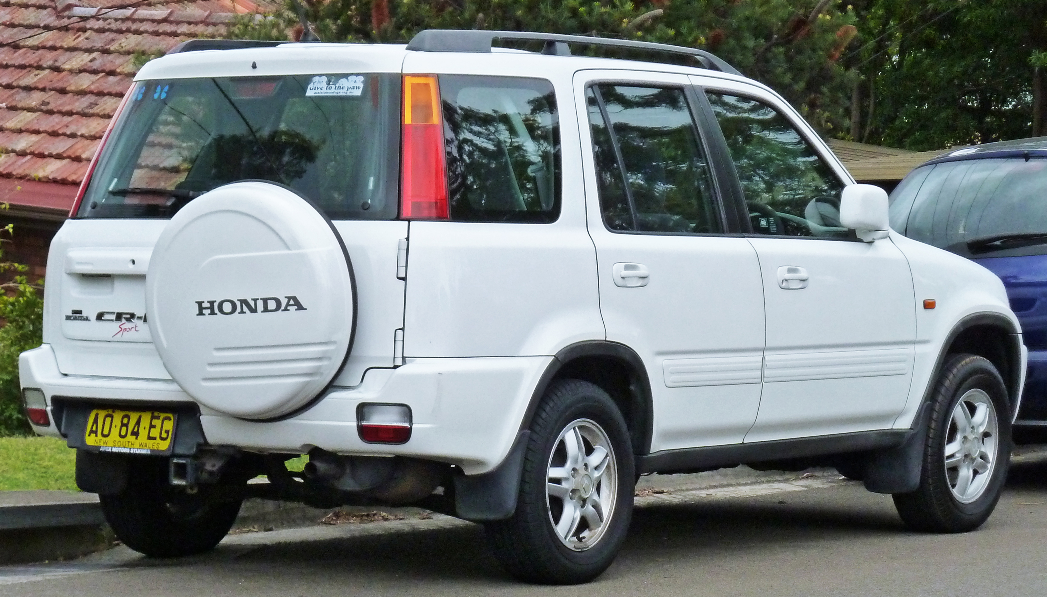 1999–2001 Honda CR-V Sport wagon. Photographed in Gymea Bay, New South Wales, Australia.